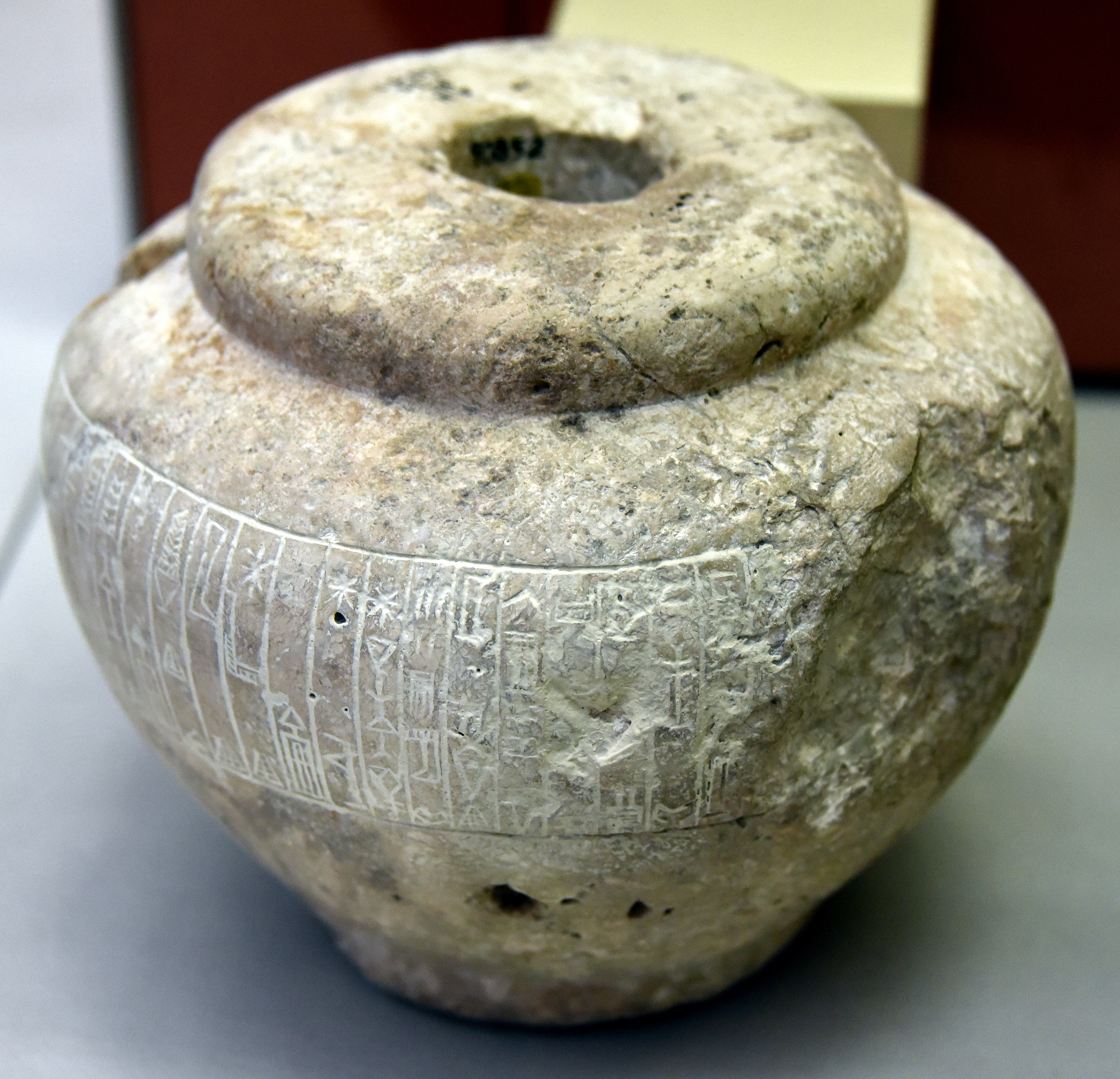 Votive mace dedicated by La-arab, king of Gutium, c. 2150 BCE, from Sippar, Iraq. British Museum. The cuneiform inscription was written in Old Akkadian, referring to the object as a votive offering.